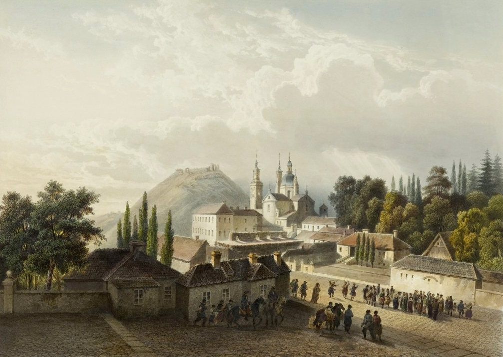 Kremenets; Bichebois, Alphonse (1801-1850)